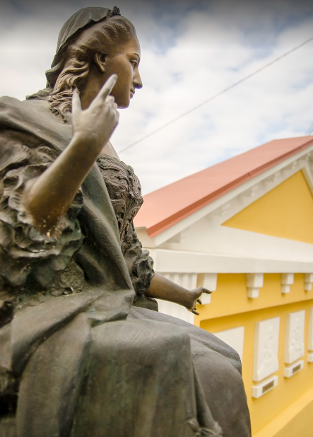 First Private Maria Theresia Garden Square in Ukraine, Uzhgorod